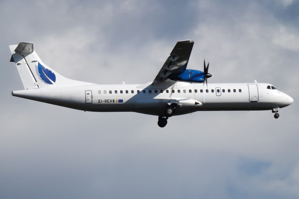 Stobart Air ATR 72-200 (EI-REH) at Glasgow Airport.